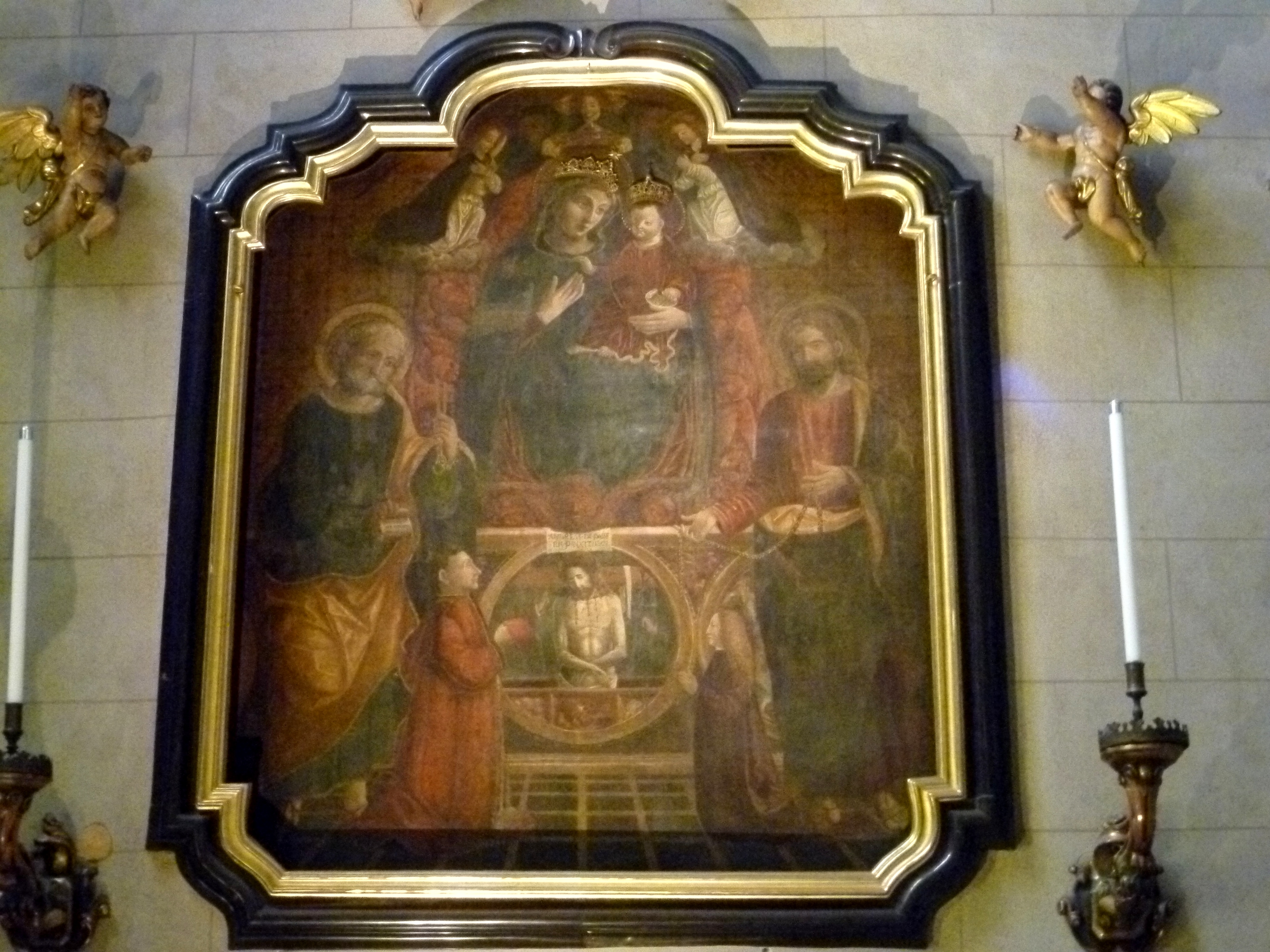 kneeling on the left is Canon Giacomo Vitudino who commissioned this altar piece; above the altar : a bust of the Madonna with Child and three angels; on the left side : St. Peter with the keys, on the right side: St Thomas holding the Blessed Virgin's belt; in the medallion: an Ecce Homo with the emblems of the passion